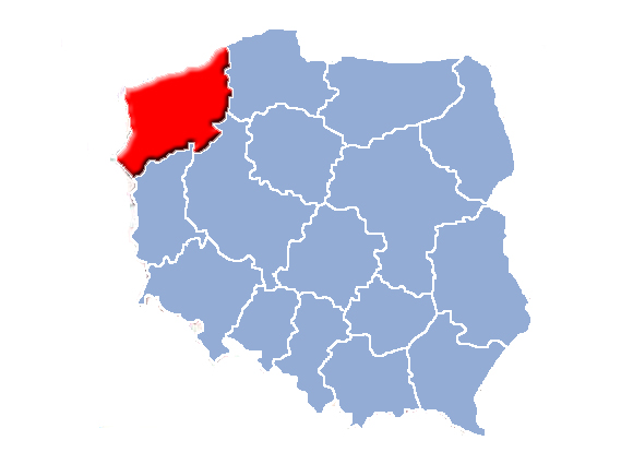 West Pomeranian Voivodship location map